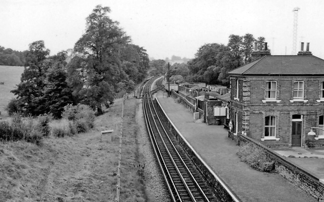 Blake Hall Station. View westward, towards Epping; ex-GE Epping - Ongar branch, taken over by London Transport in 1949, but not electrified until 11/57 being worked by a steam shuttle service until then, when an LTE Central Line electric shuttle took over. Blake Hall was the least used and most rural station on the Underground; it was closed on 31/10/81. The branch was closed on 30/9/94, but was restored by the Heritage Epping - Ongar Railway on 10/10/04.